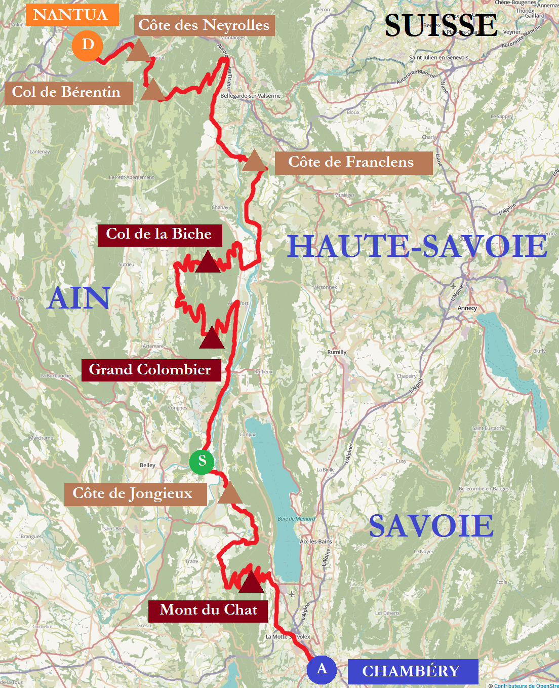 Map of the route of the 9th stage of the Tour de France 201 in Jura mountain range. This route starts in Nantua (Ain) and ends up at Chambéry (Savoie).